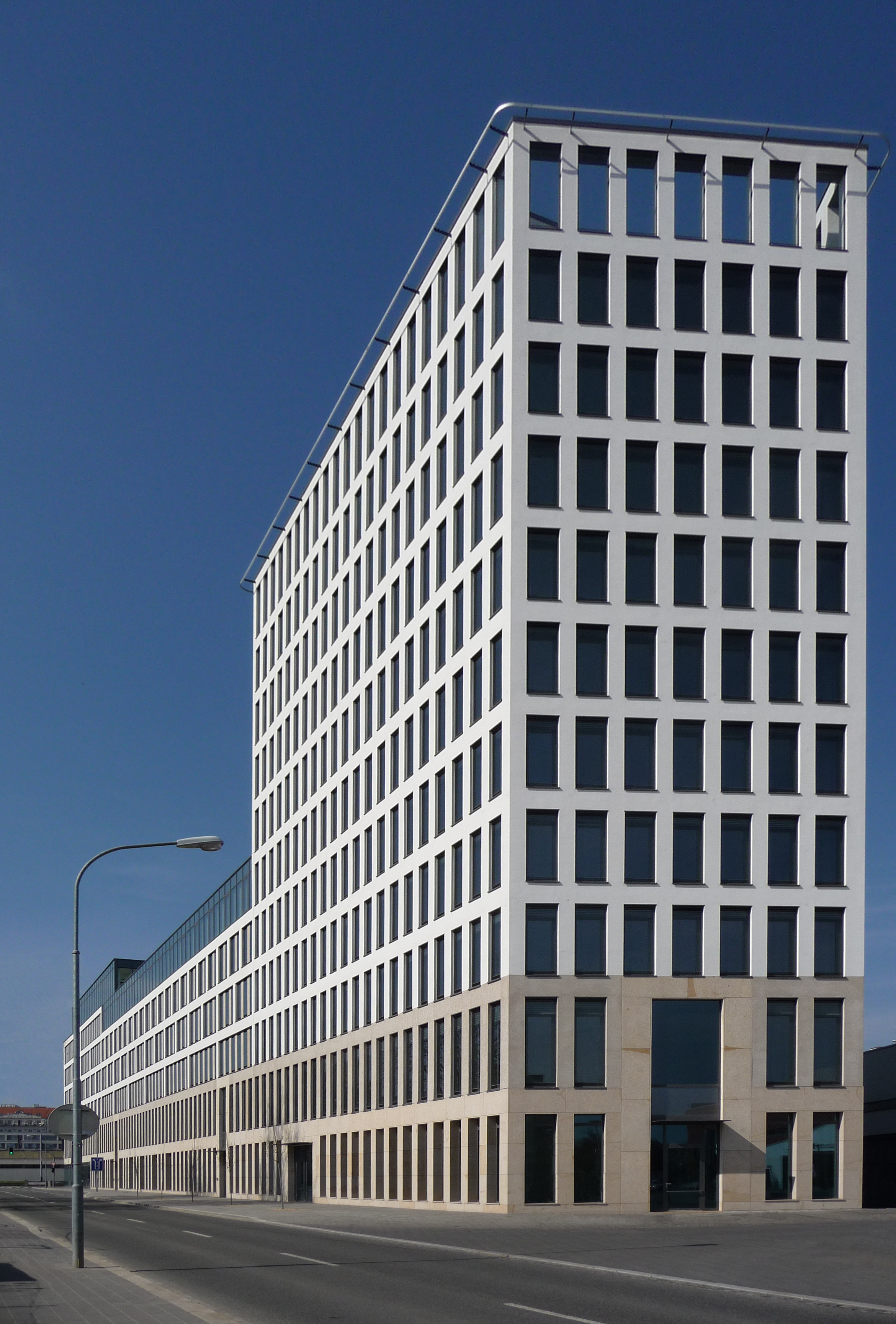 Finished Triniti office center in Brno